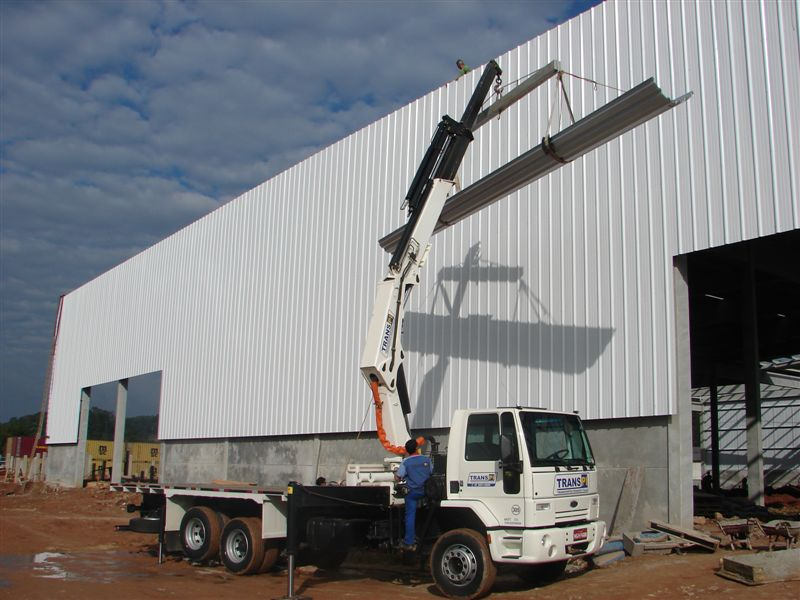 Ford Cargo 6x2 or 6x4 truck crane.